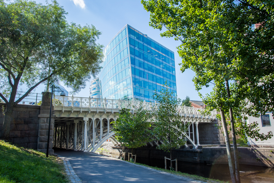 Hausmanns bridge and Akerselva Atrium, Grønland, Oslo